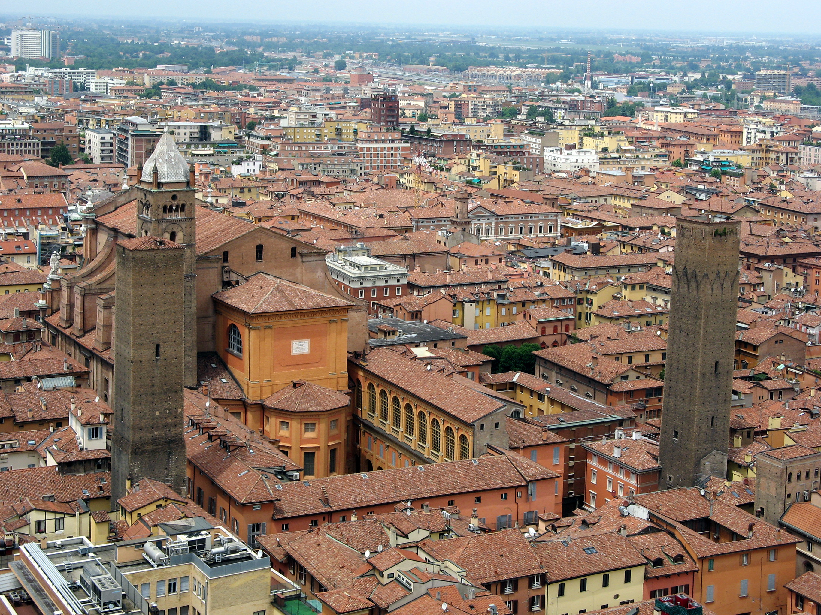 Back of St. Peter seen from the Asinelli tower